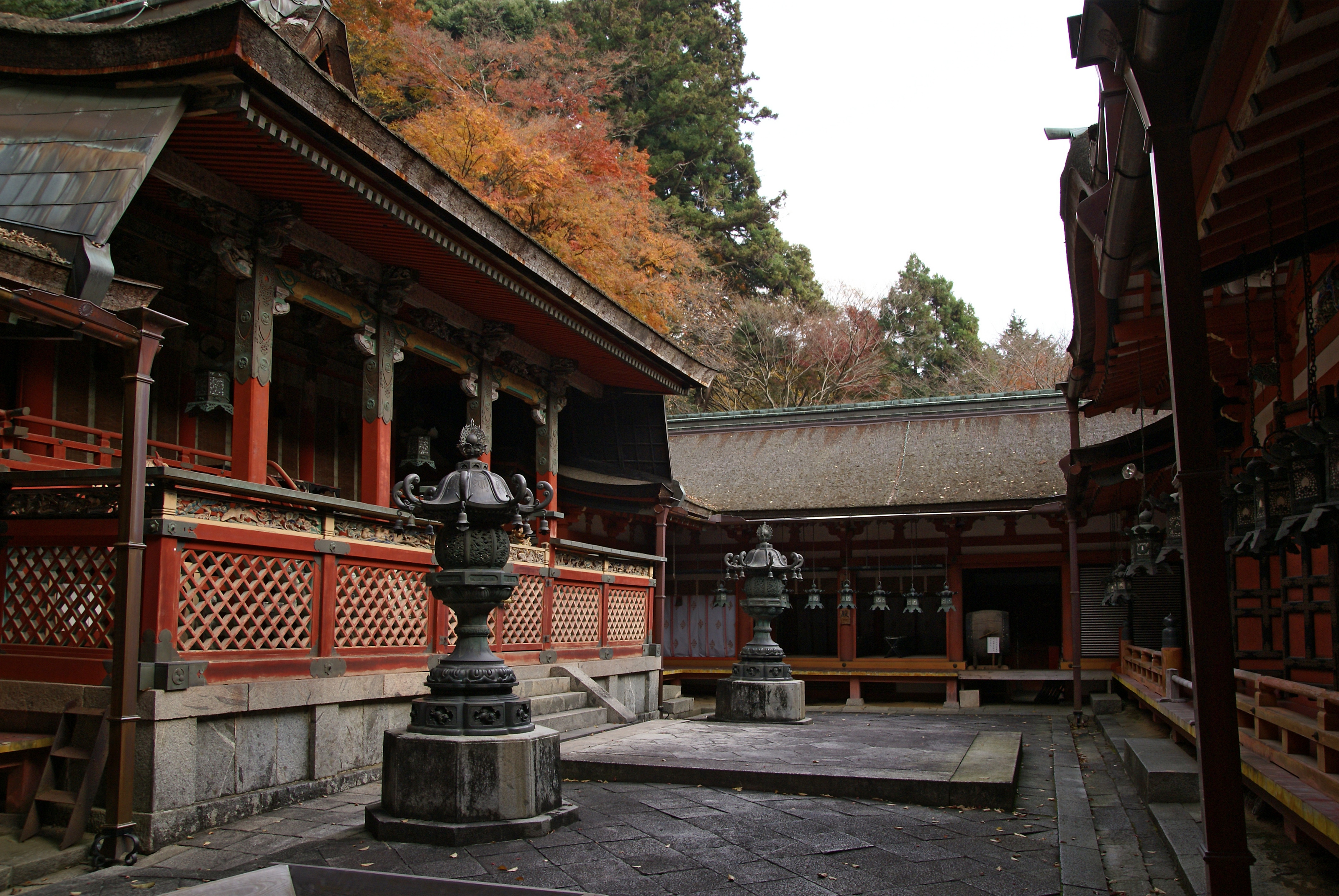 Tanzan-jinja in Sakurai, Nara Prefecture, Japan